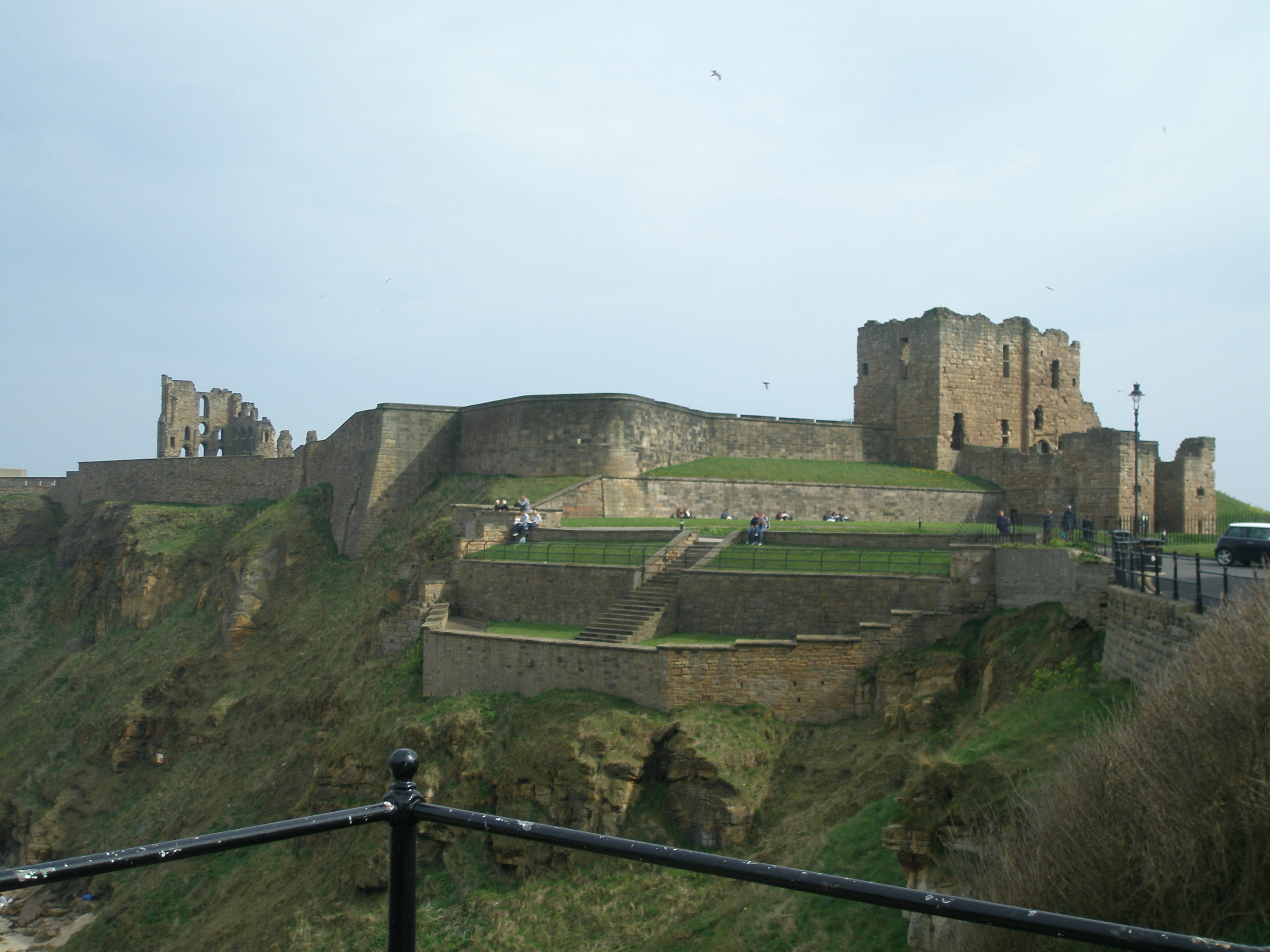 Tynemouth Castle is located on a rocky headland (known as Pen Bal Crag), overlooking Tynemouth Pier. The moated castle-towers, gatehouse and keep are combined with the ruins of the Benedictine priory where early kings of Northumbria were buried. Taken from the north.